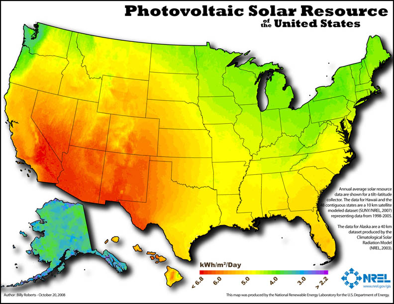 U.S. Solar Resource Map - solar photovoltaics (PV) resource potential for the United States - Low Resolution (letter size) (JPG 111 KB)